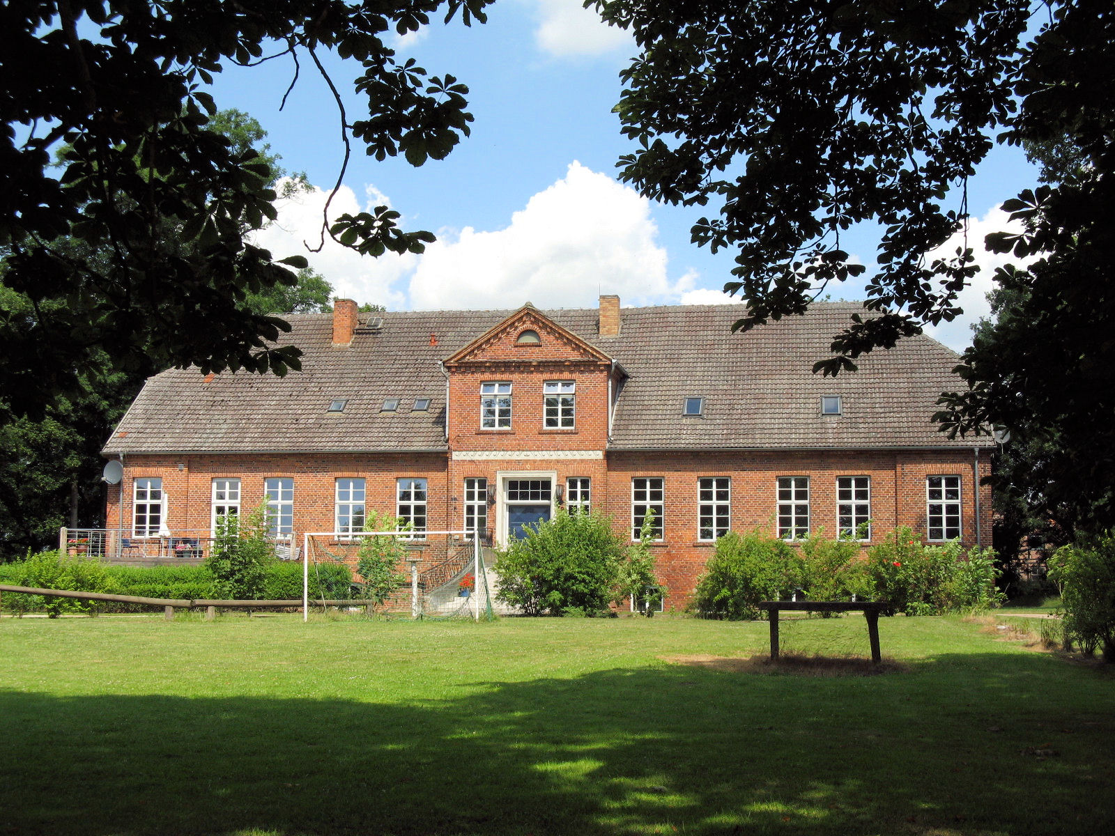 Manor house in Kirch Kogel, disctrict Güstrow, Mecklenburg-Vorpommern, Germany